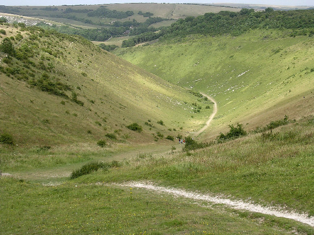 Devil's Dyke. This view which is taken from the north west corner of the grid box looks down the dry valley known as Devil's Dyke on the north edge of the South Downs escarpment.